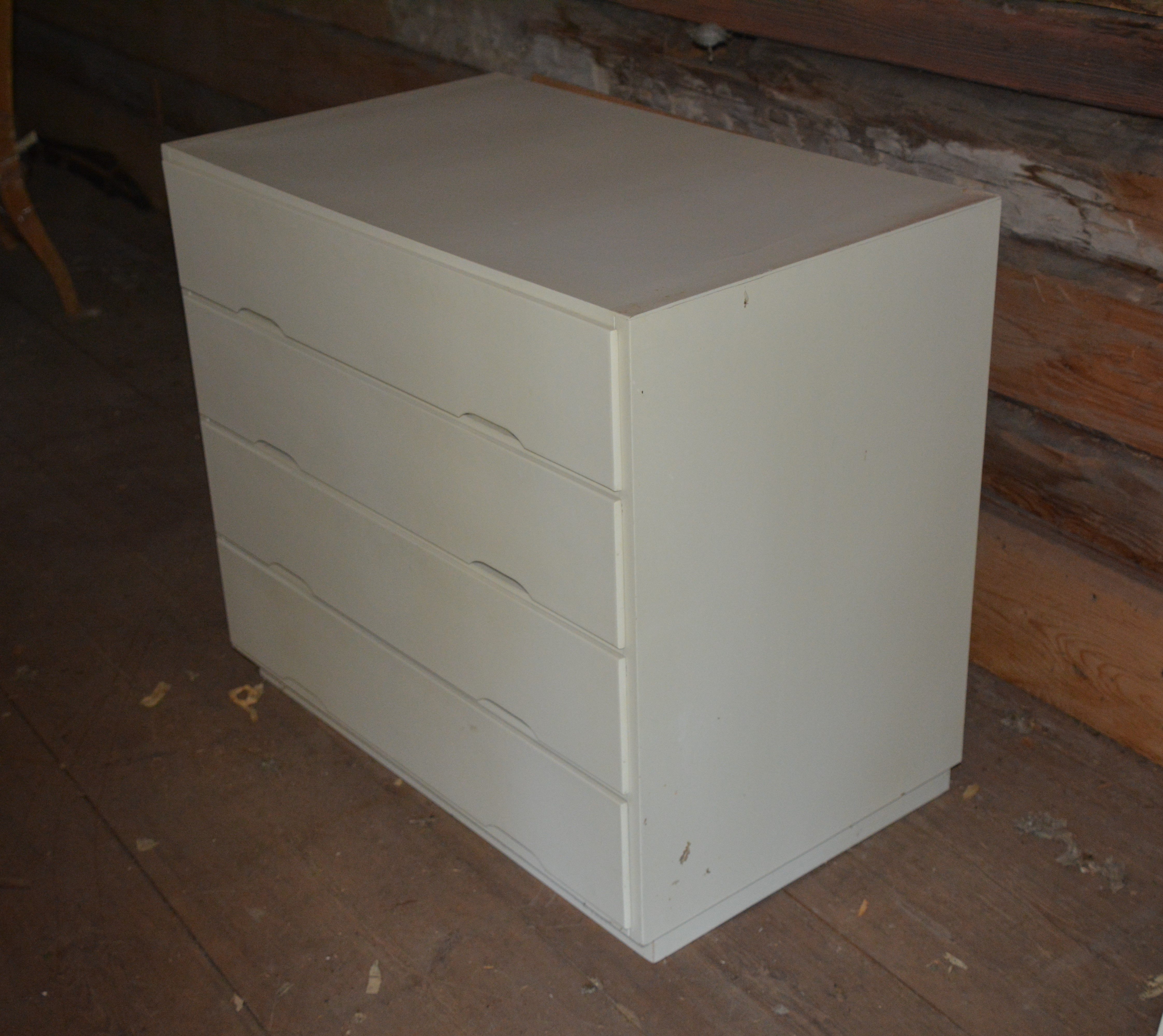 Ikea's drawer "Tore", 1960's . Designed by Gillis Lundgren. 80 cm wide, 70 cm high.., 48 cm deep.